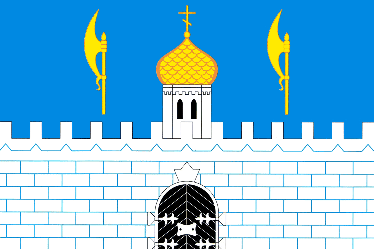 Sergiev Posad (Moscow oblast), flag